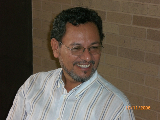 Elmer Mendoza en Texas A&M University